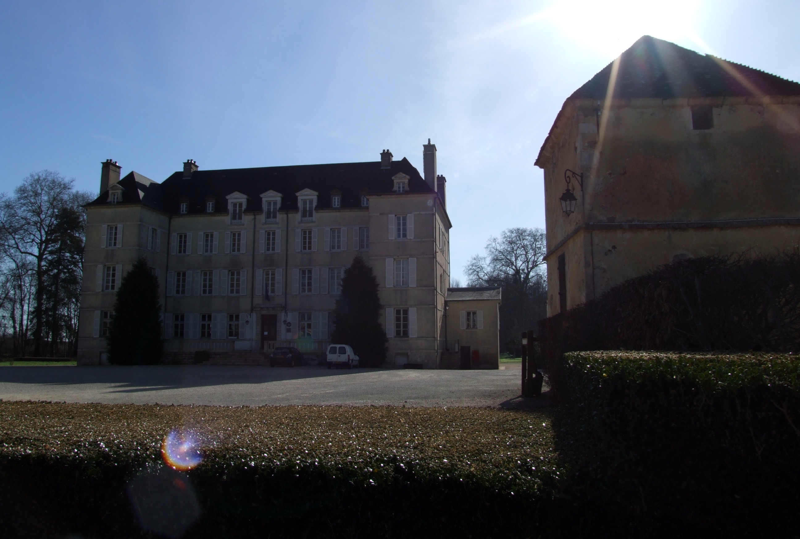 Burgundy, FRANCE